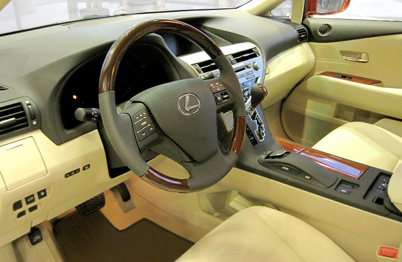 3rd gen RX